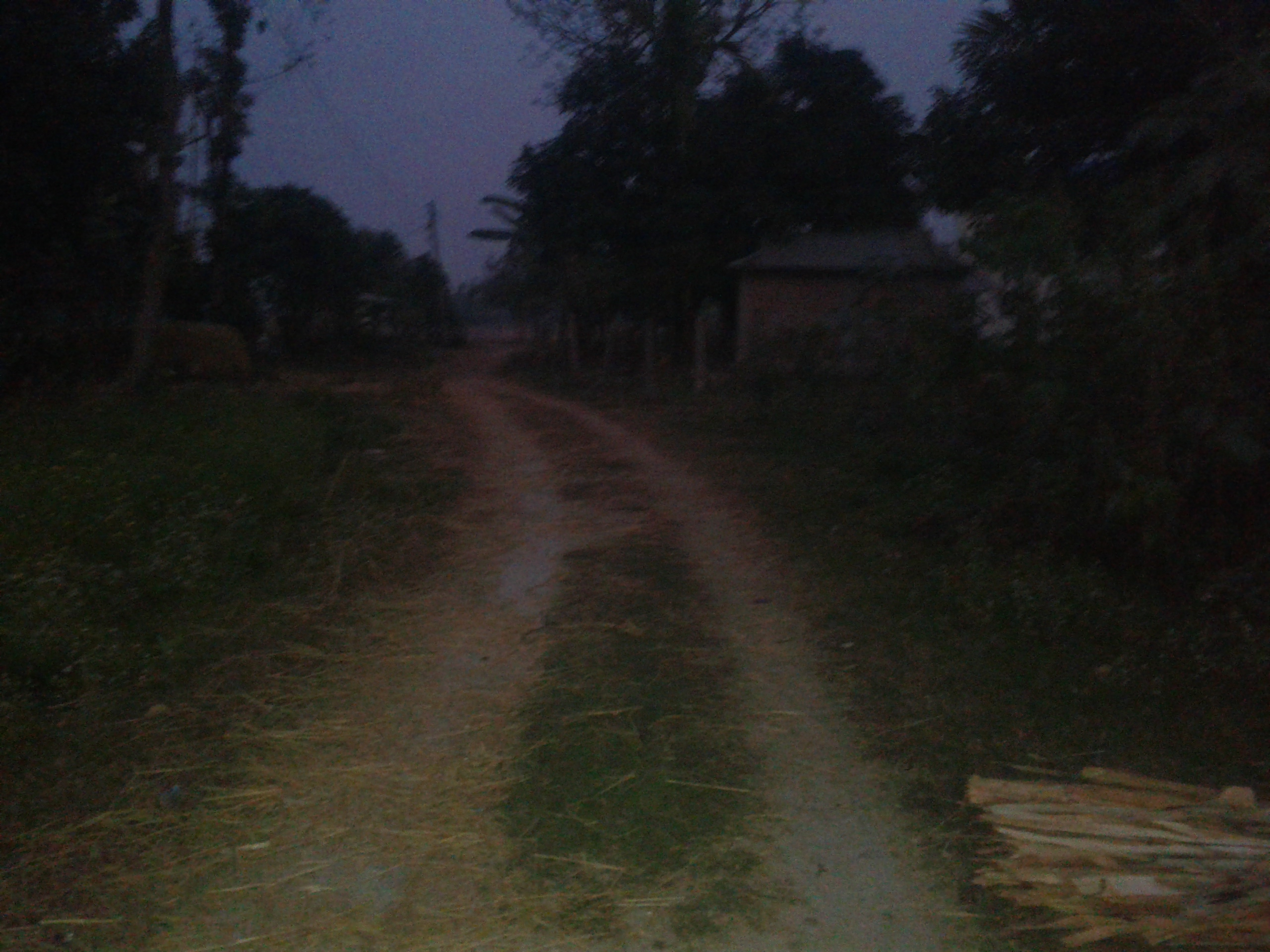 Road Other information No